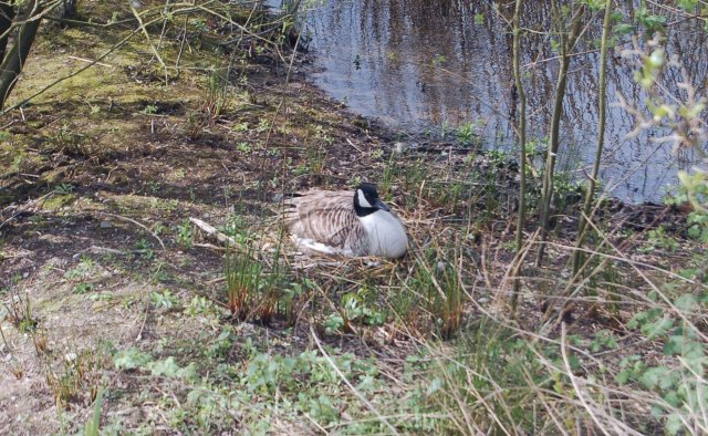 At home in Llyn Coed Y Dinas Canada Goose on nest.